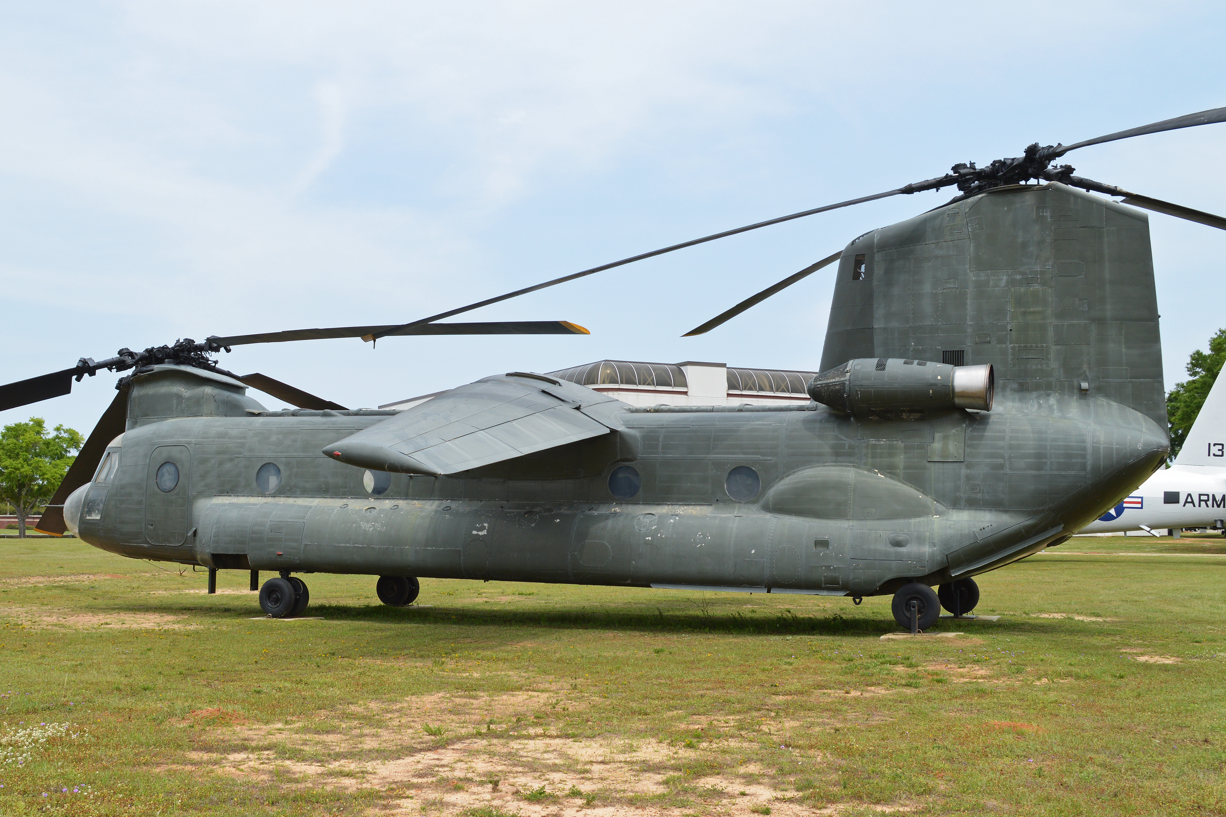 Experimental helicopter with additional fixed-wings. It was evaluated for the Heavy-Lift Helicopter project in 1972 which led to the creation of the XCH-62. This is a modified CH-47A fitted with a 9ft fuselage plug, four bladed rotors and variable geometry fixed wings. c/n B.164. US Army Aviation Museum. Fort Rucker. Alabama, USA. 17-4-2013